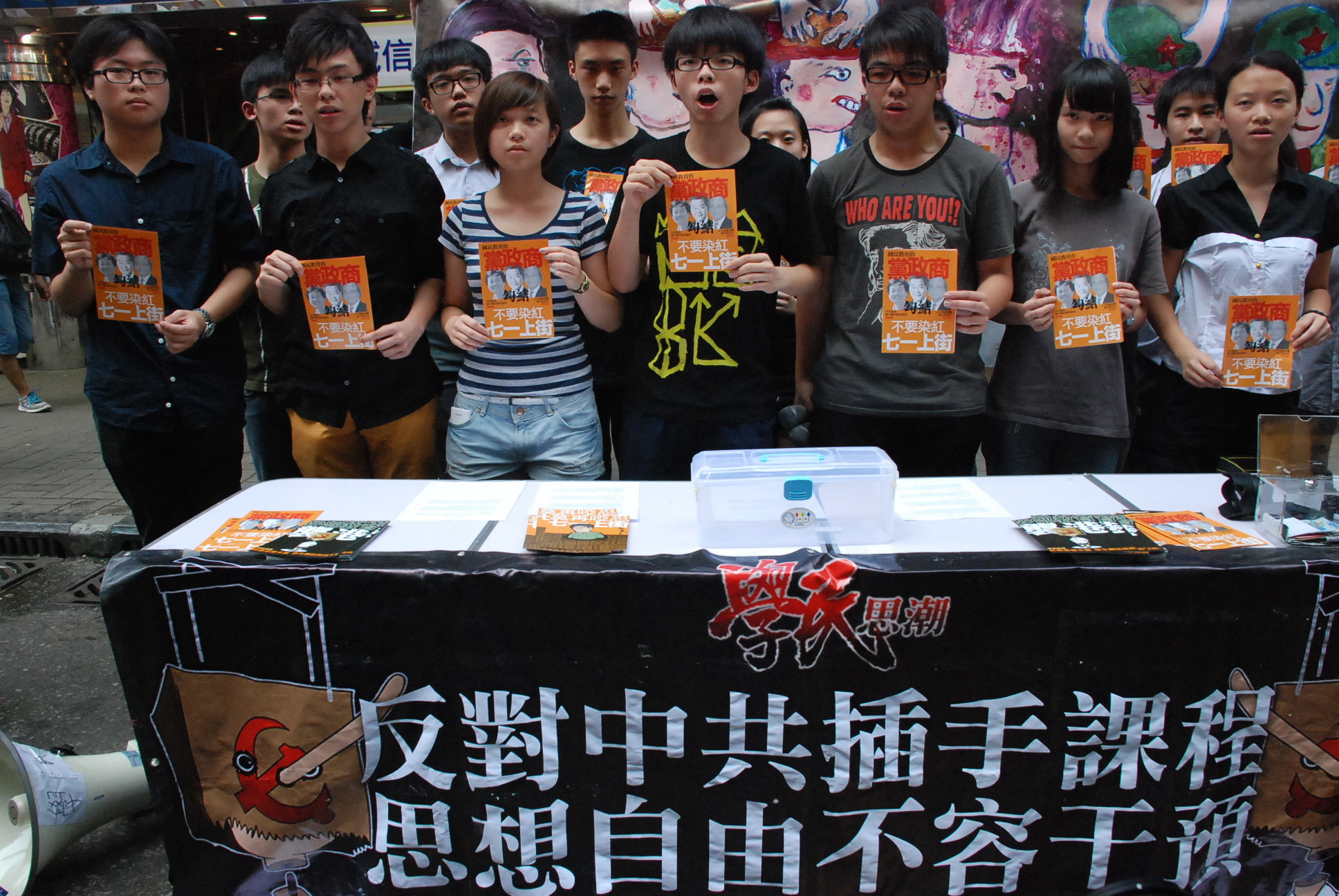 Scholarism,a student group in Hong Kong against the brainwashing curriculum, appealed to the public for participation in the July 1 march of 2012.